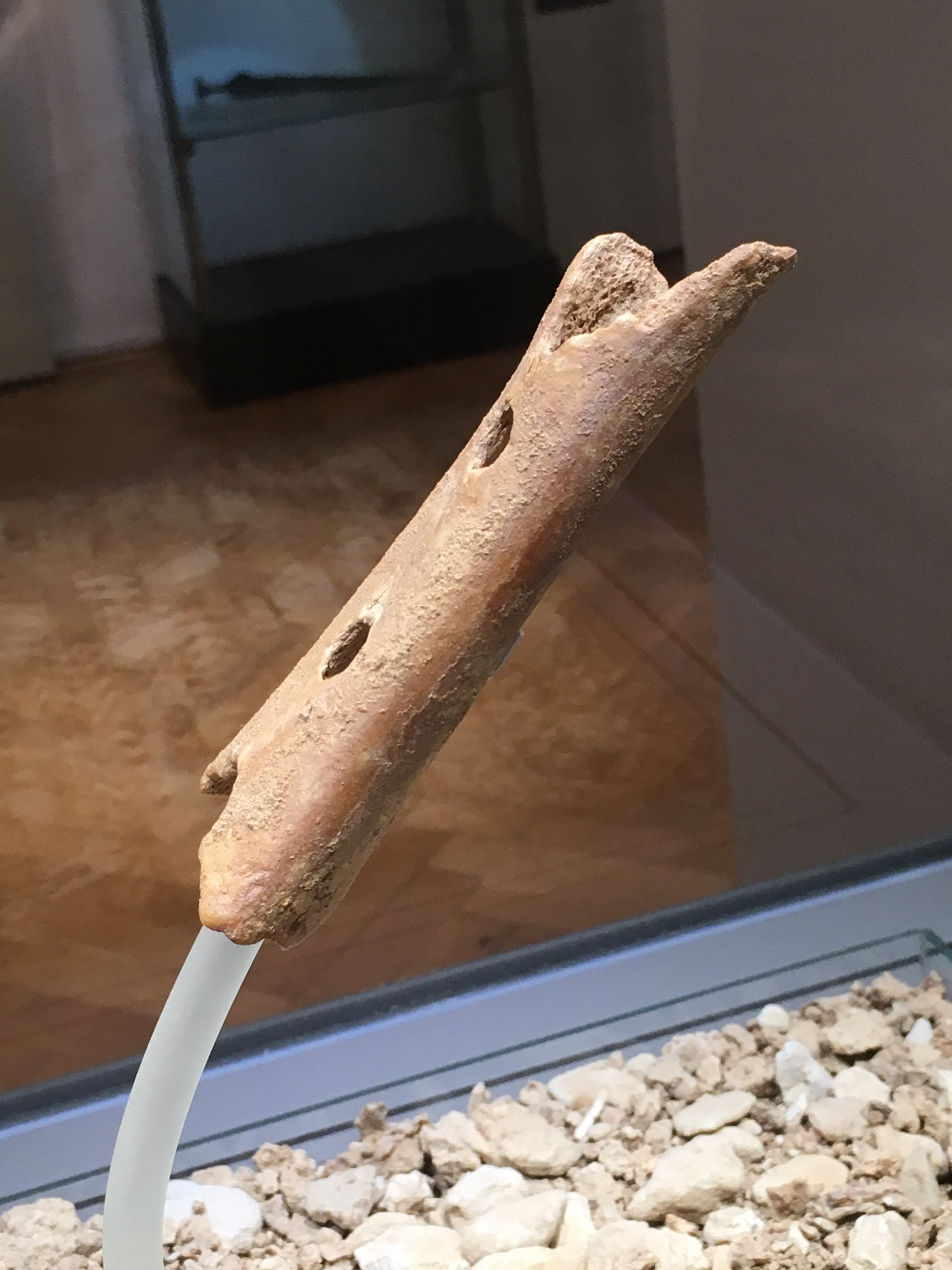 Divje Babe flute from left